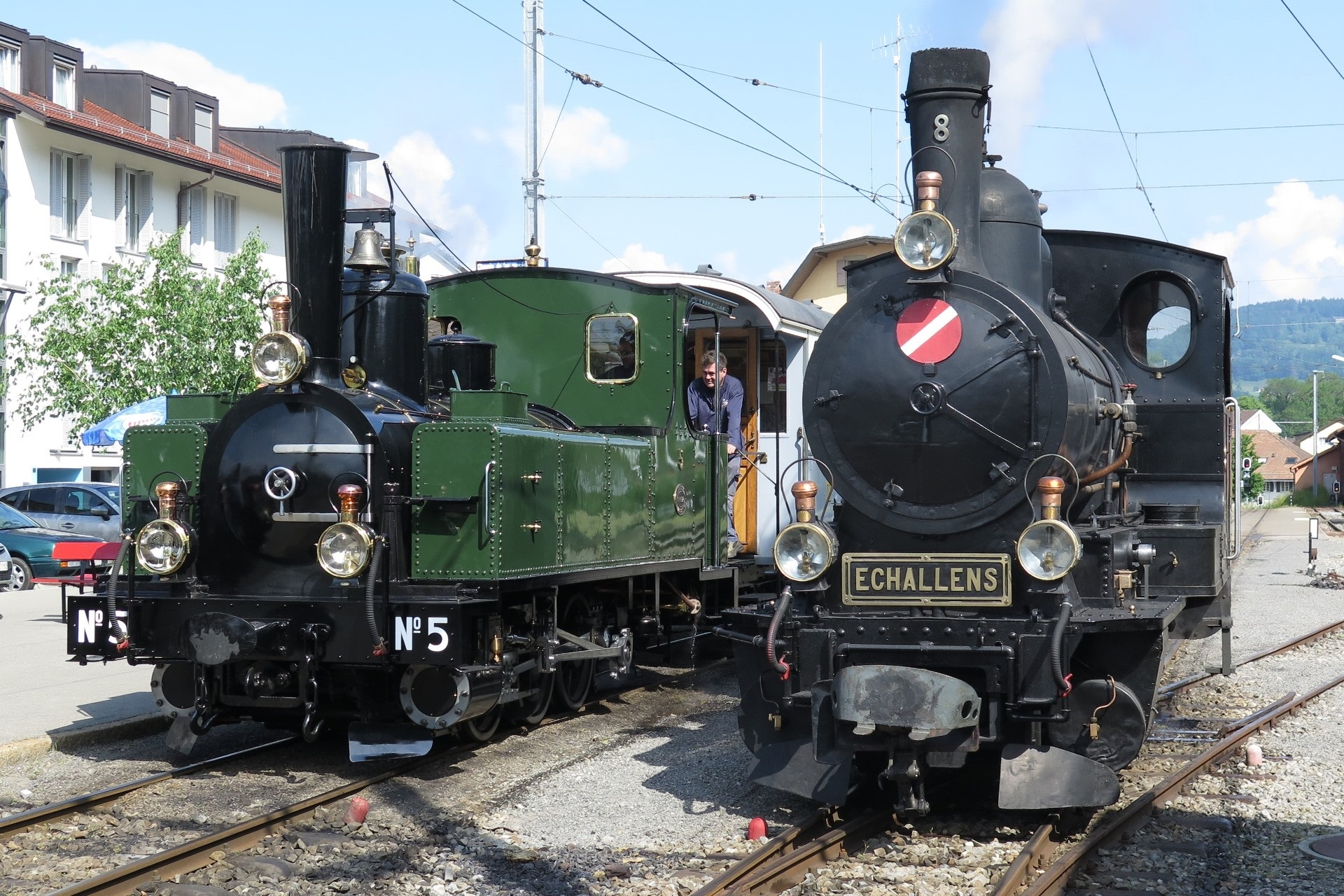 Metre gauge tank locomotive G 3/3 Bercher and G 3/3 8 Echallens of the Lausanne–Échallens–Bercher railway (LEB) at the Blonay railway station in Switzerland.